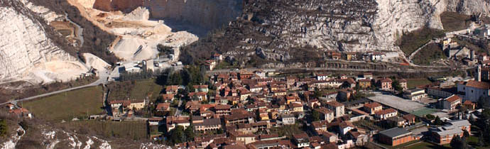 Virle, panorama.